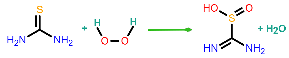 Thiourea oxidation by hydrogen peroxide